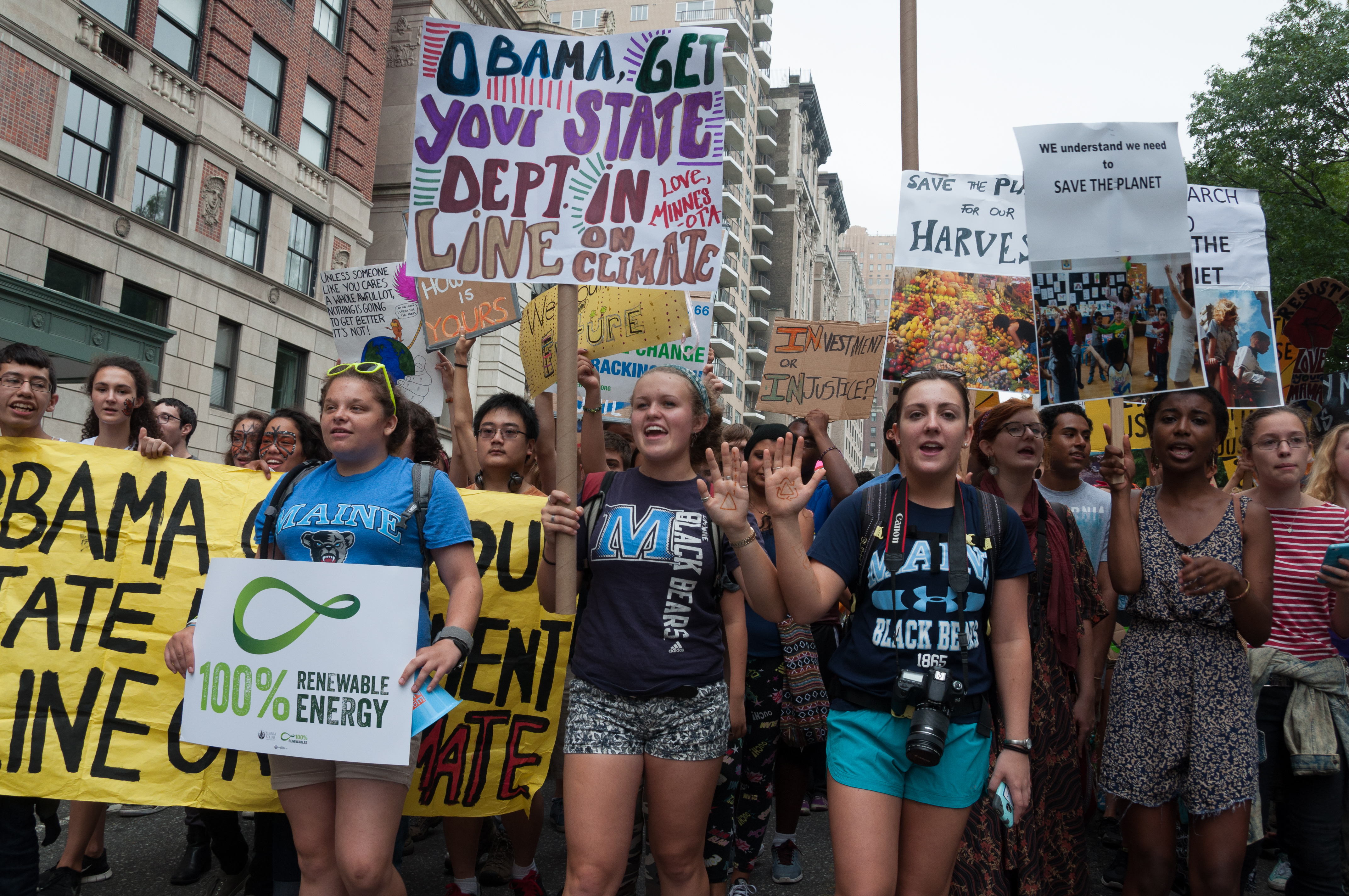 From the People's Climate March rally in New York City, Sept. 21 2014.